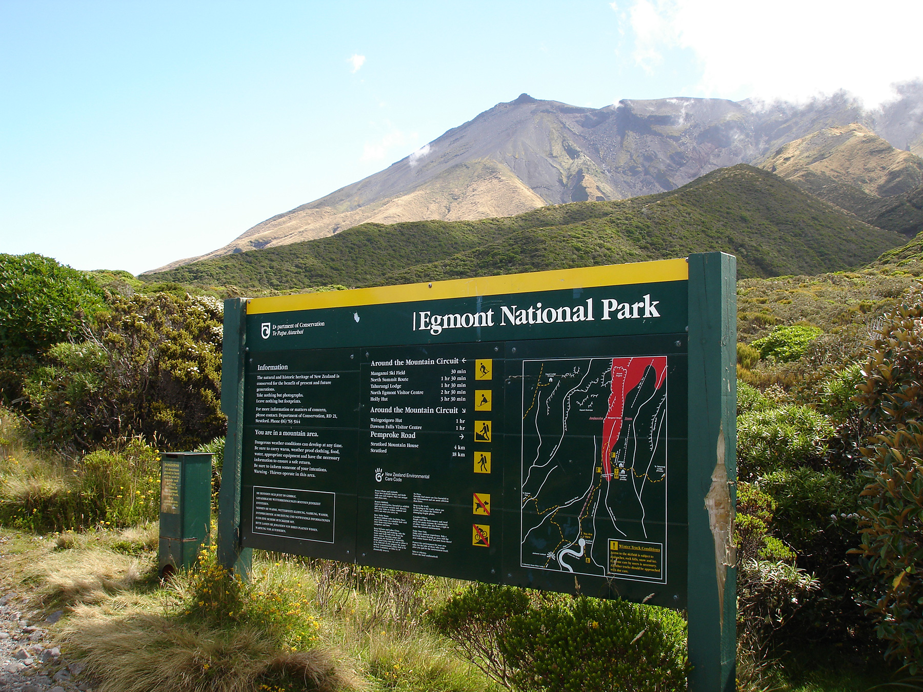 Entrance sign, Egmont NP, New Zealand